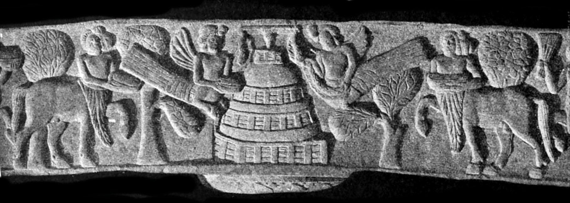 Centaur architrave Kankali Tila Mathura 100 BCE detail